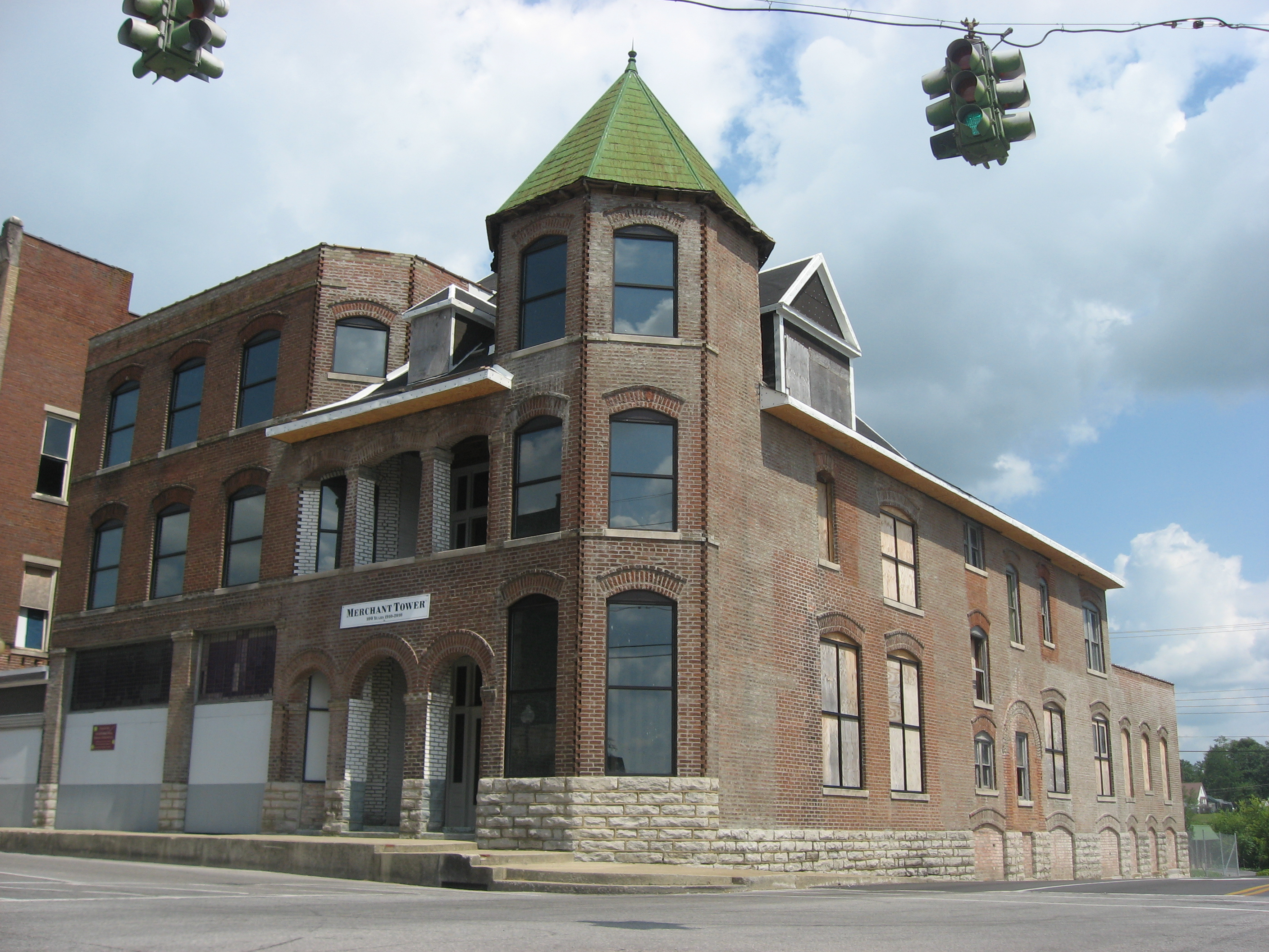 Front of the Merchant Tower, located at 102 E. Main Street in Campbellsville, Kentucky, United States. Built in 1910, it is listed on the National Register of Historic Places, and it is part of a Register-listed historic district, the Campbellsville Historic Commercial District.